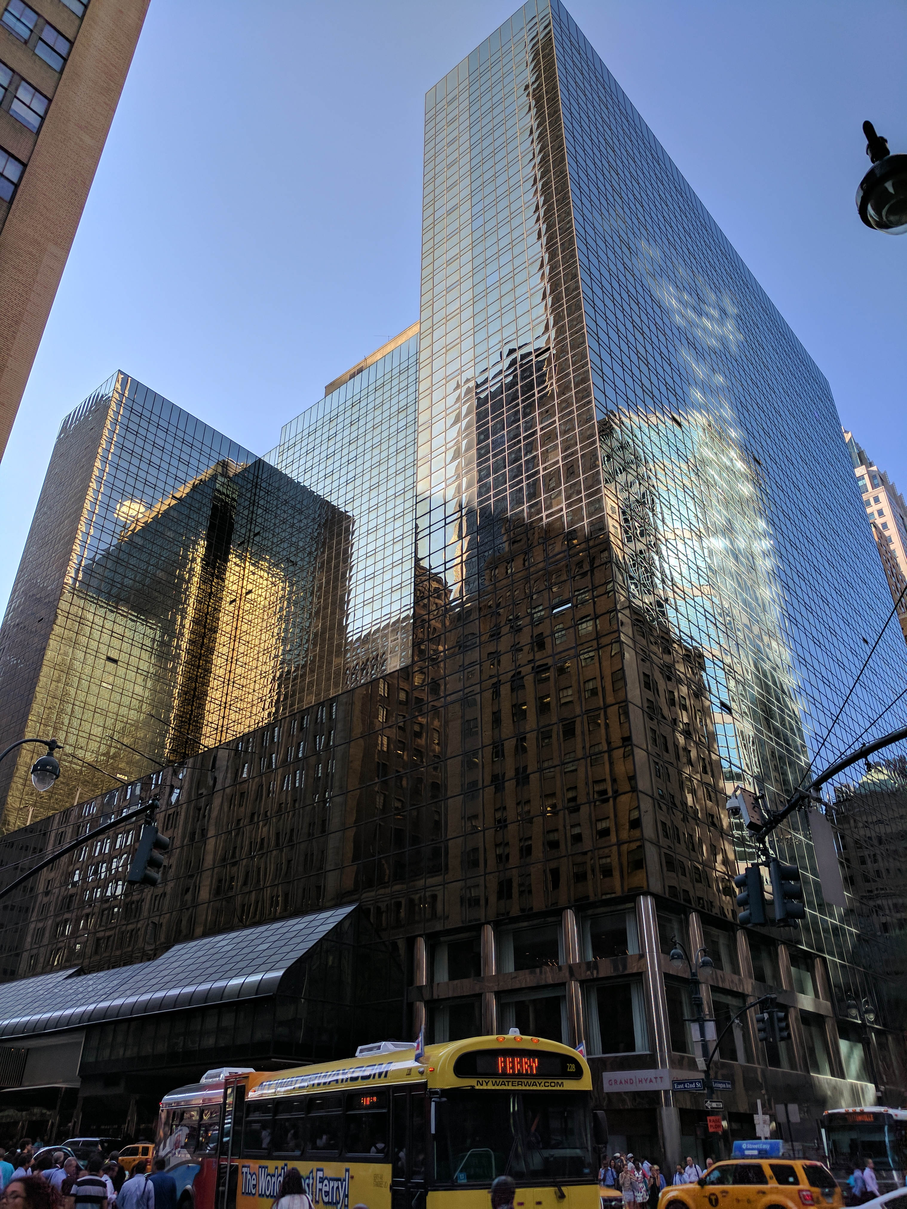 42nd Street facade of Grand Hyatt New York